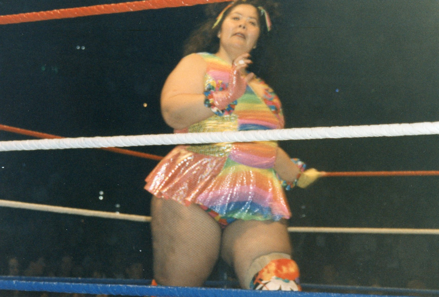 Bertha Faye on a WWF show at the Royal Albert Hall